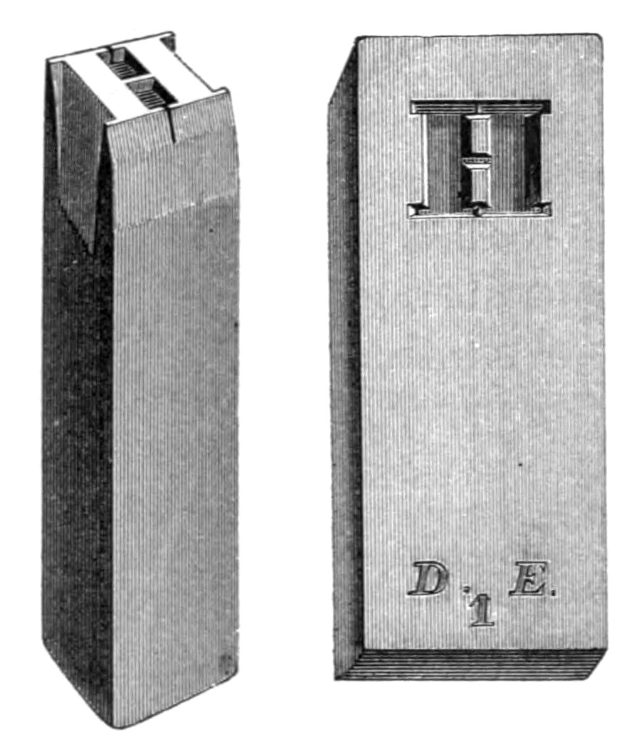 Illustration of a punch (left) and matrix (right) used in type-founding, ca. 1876.